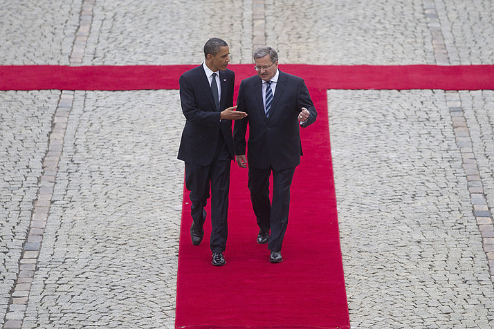 President of the United States Barack Obama and President of the Republic of Poland Bronisław Komorowski